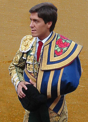 Matador Antonio Barrera in the capote de paseo (dress cape) before a bullfight during the 2003 Aste Nagusia festival in Bilbao, Spain. The sand is coloured in ochre here.